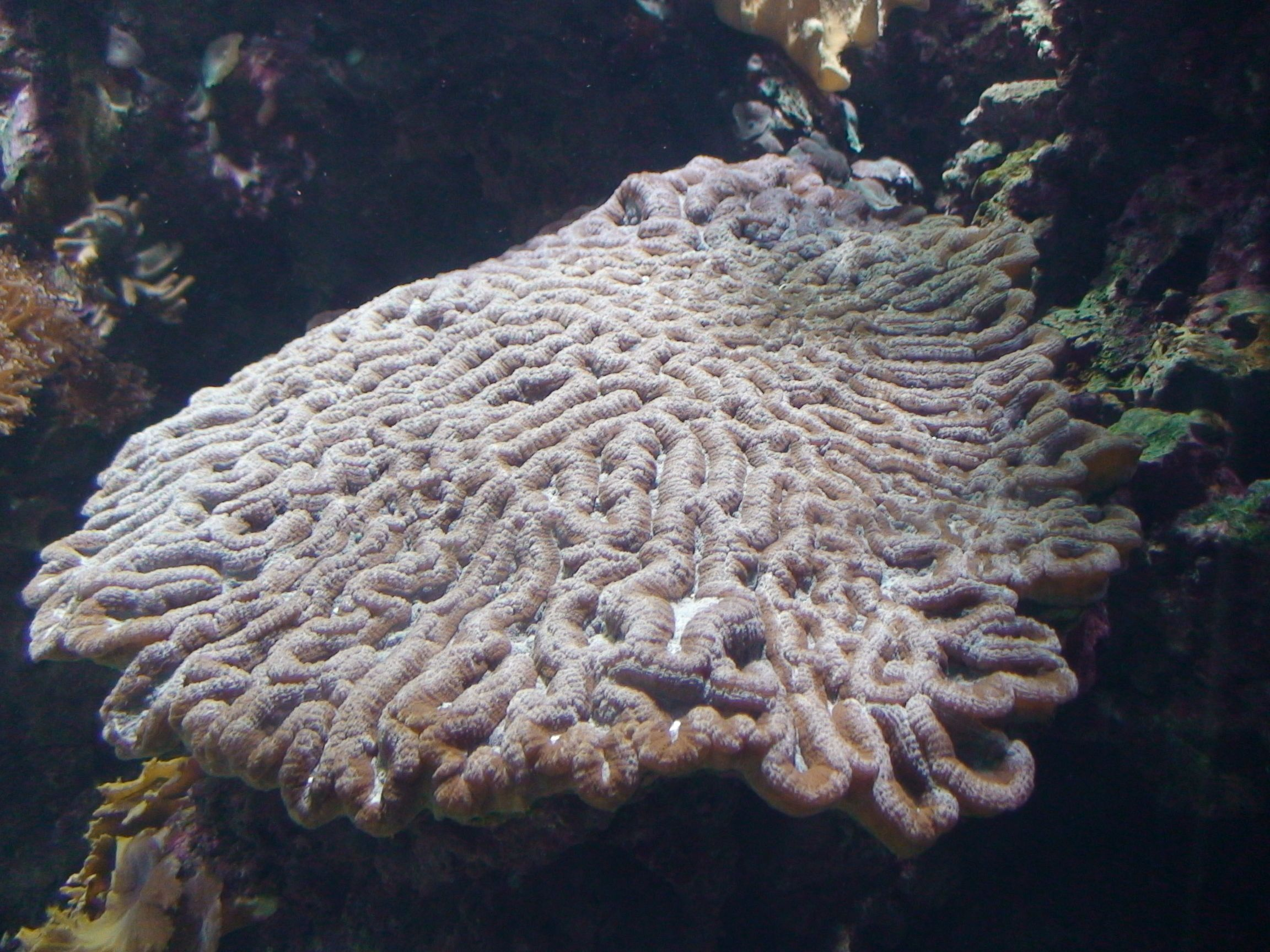 Grooved Brain Coral Oulophyllia crispa. Oceanário de Lisboa, Lisbon, Portugal.